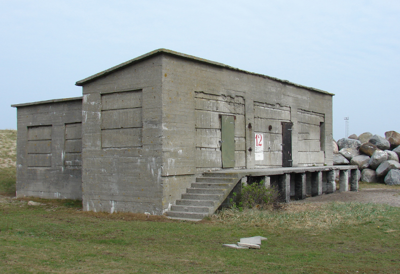 Crew bunker R621, Thyborøn, Denmark